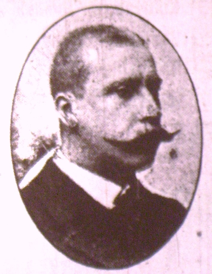 Picture of Hugo Samzelius, Swedish writer